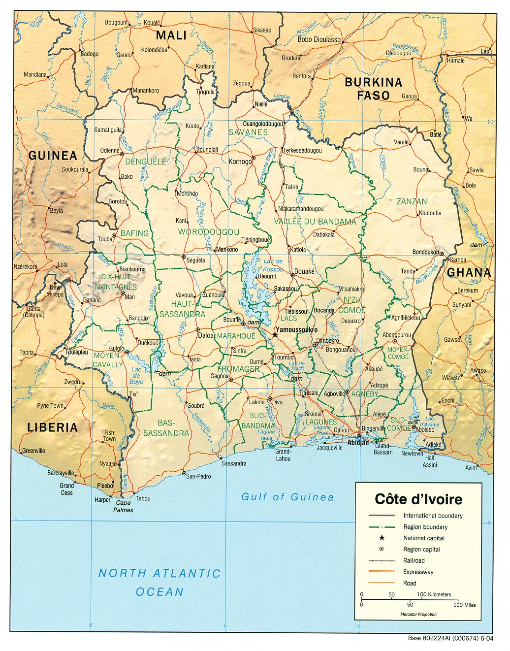 haded relief map of Côte d'Ivoire.